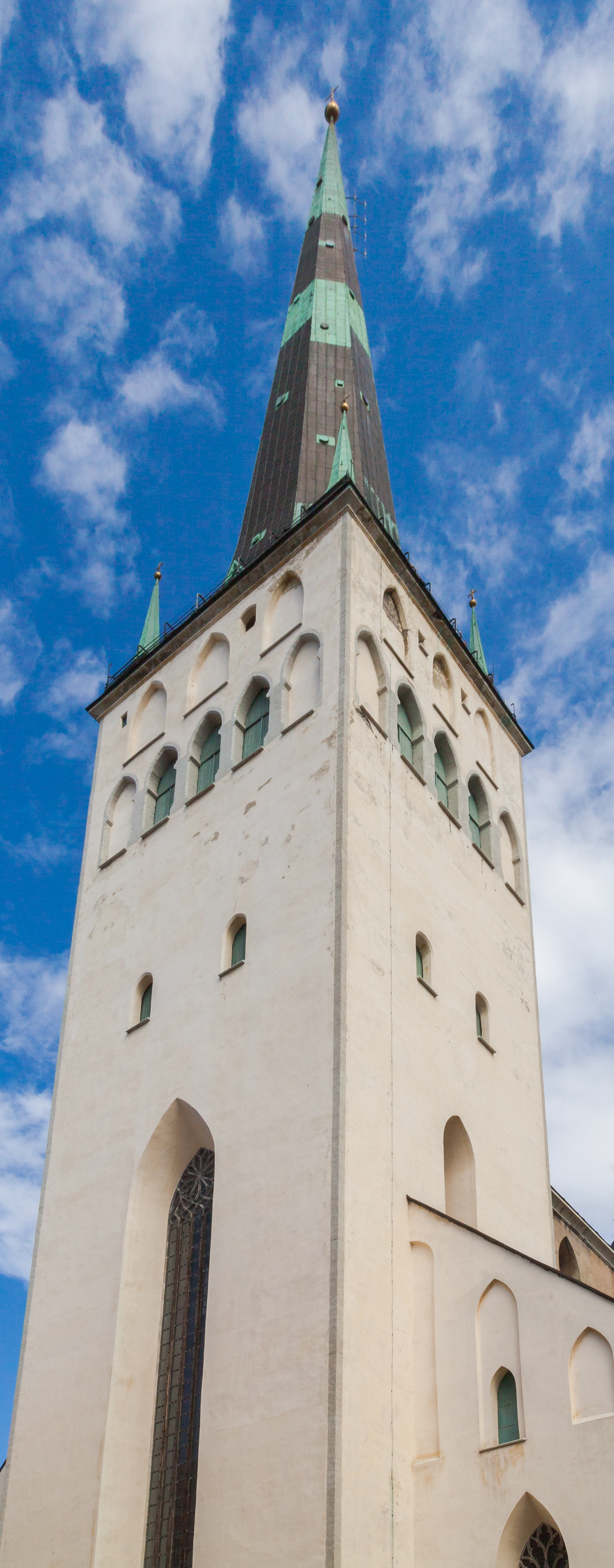 St Olaf's Church, Tallinn, Estonia